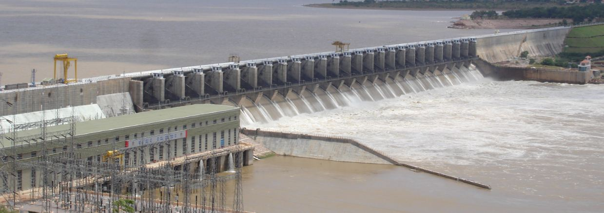 alamatti dam in north karnataka